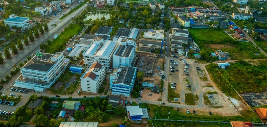 รพร.สระแก้ว